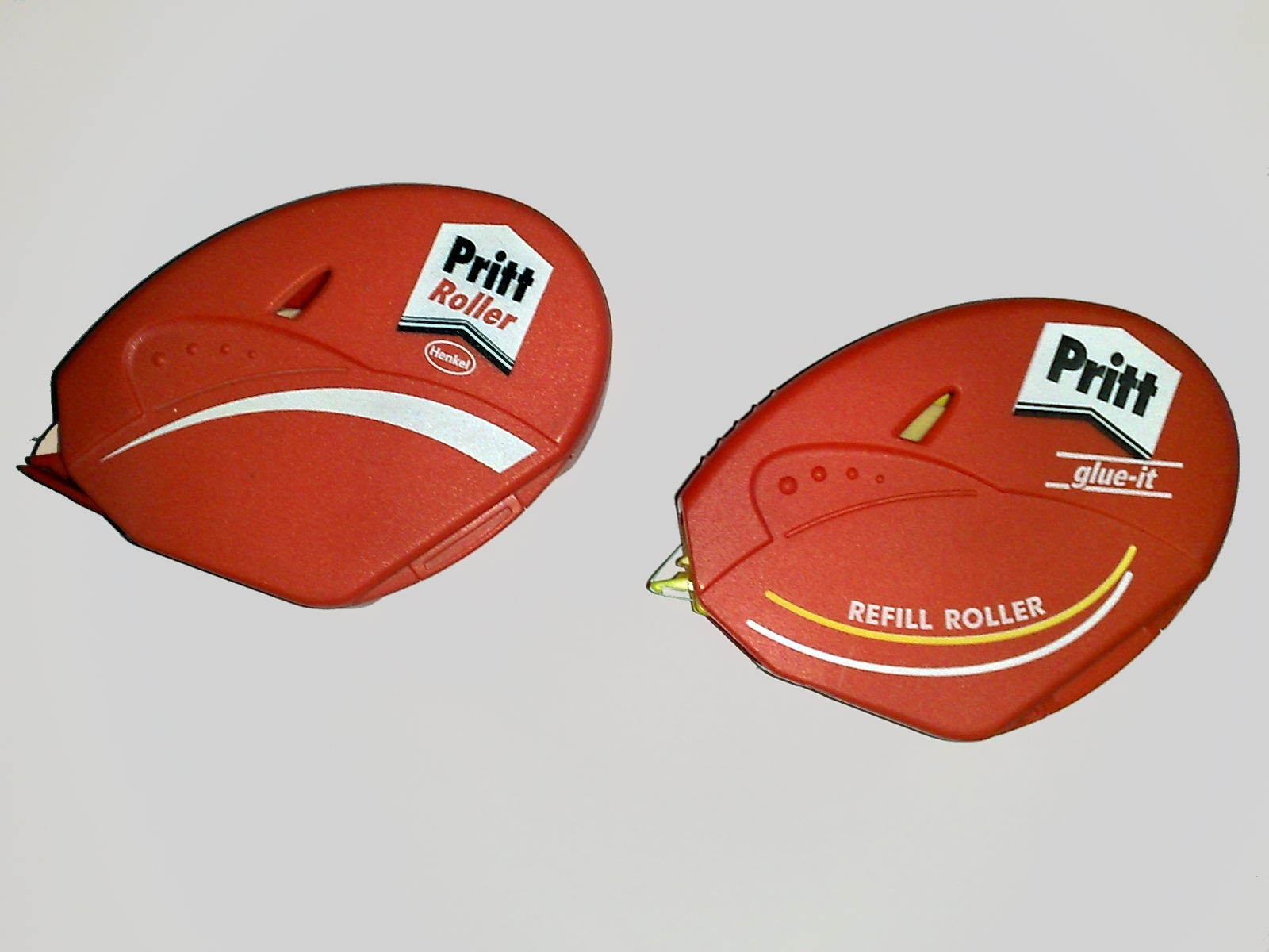 Pritt roller glues